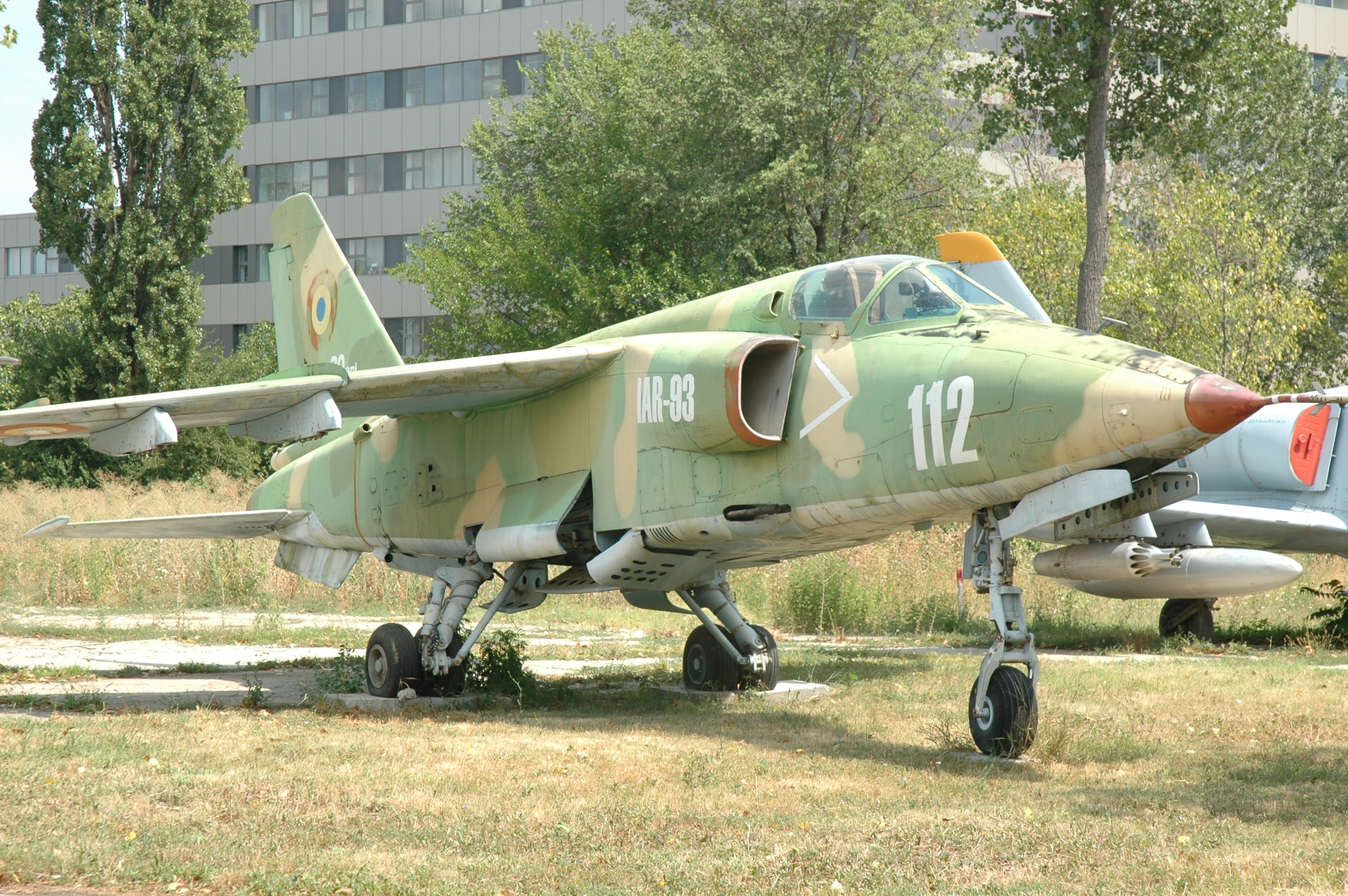 Romanian IAR 93A ground attack aircraft, displayed at the National Museum of Romanian Aviation in Bucharest